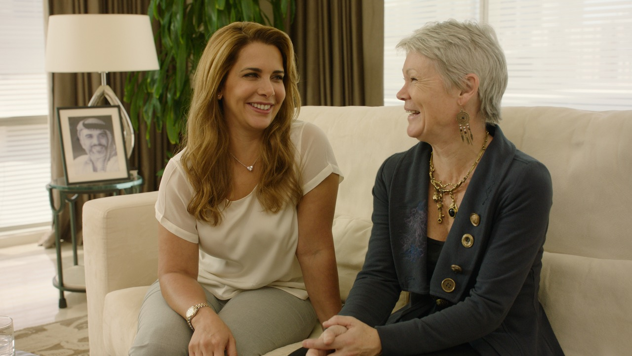 HRH Princess Haya Bint al Hussein of Jordan meets with Tracy Edwards MBE in Jordan, to discuss memories of HM King Hussein of Jordan